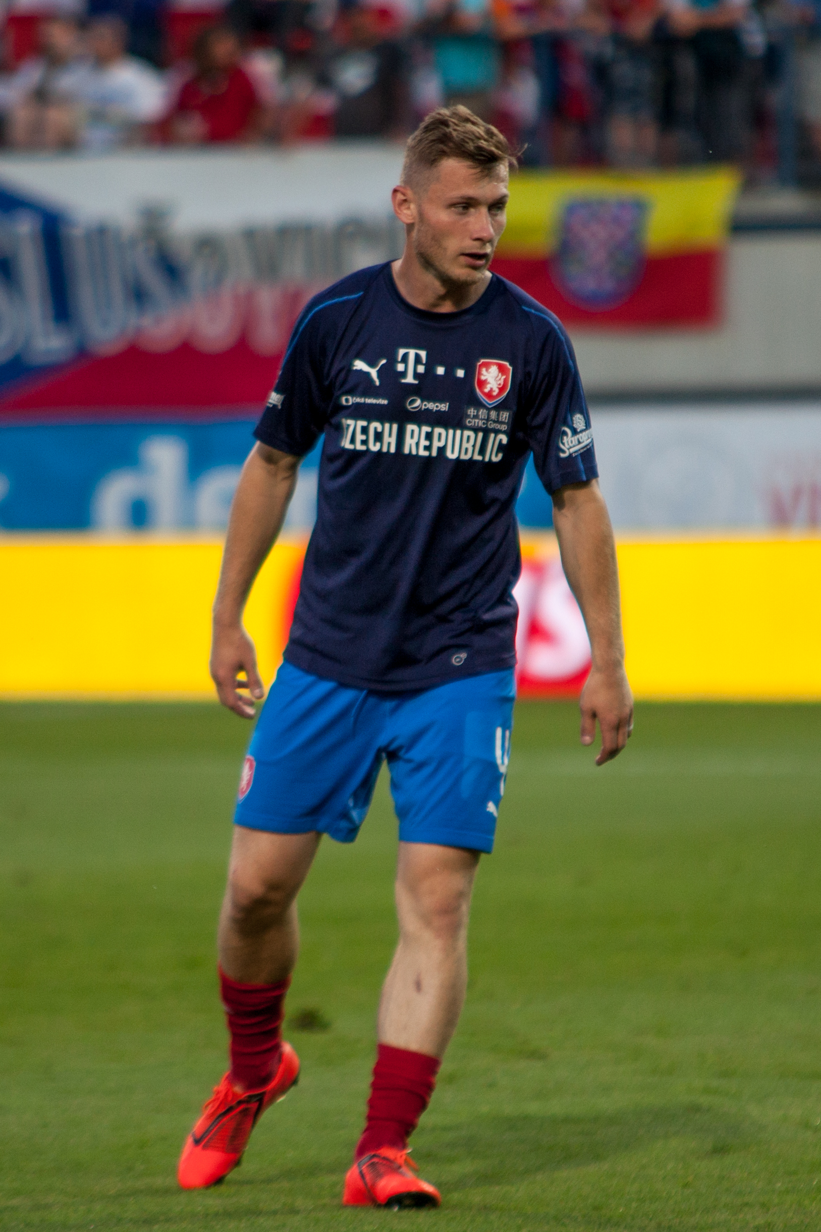 Jakub Brabec at EURO 2020 Qualifying Round Czech Republic-Montenegro (10/6/2019, Ander Stadium, Olomouc) Personality rights warningAlthough this work is freely licensed or in the public domain, the person(s) shown may have rights that legally restrict certain re-uses unless those depicted consent to such uses. In these cases, a model release or other evidence of consent could protect you from infringement claims.